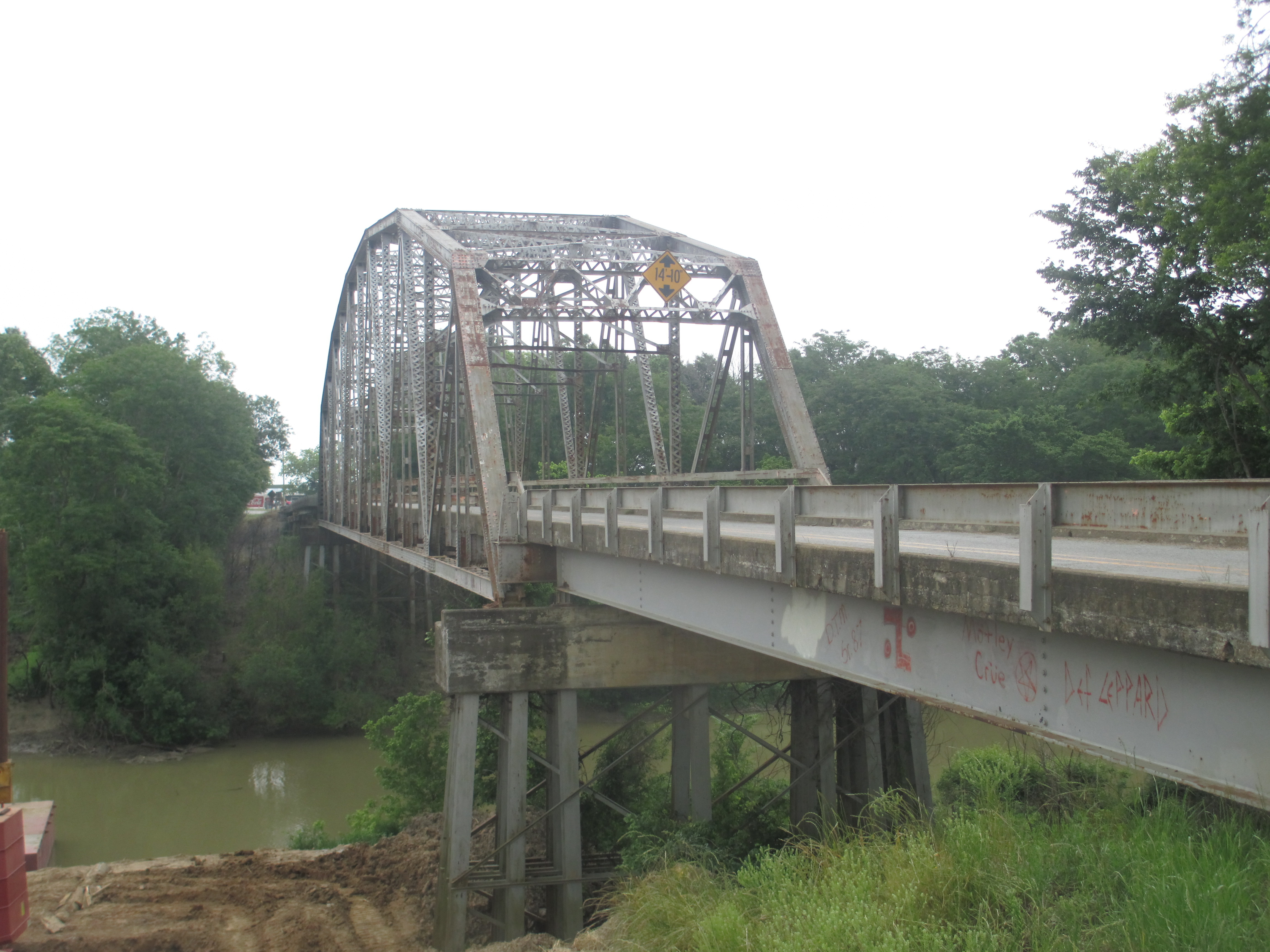 I took photo with Canon camera of bridge over Bayou Macon on East and West Carroll Parish boundary east of Epps, LA.